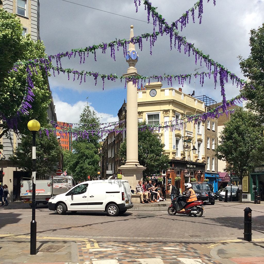 Seven Dials from Monmouth Street. A fine day in June. The original sundial column was built in 1694 but later removed. This replica dates from 1988–89. It was unveiled by Queen Beatrix of the Netherlands on a visit to commemorate the tercentenary of the reign of William III and Mary II, during which the area was developed.